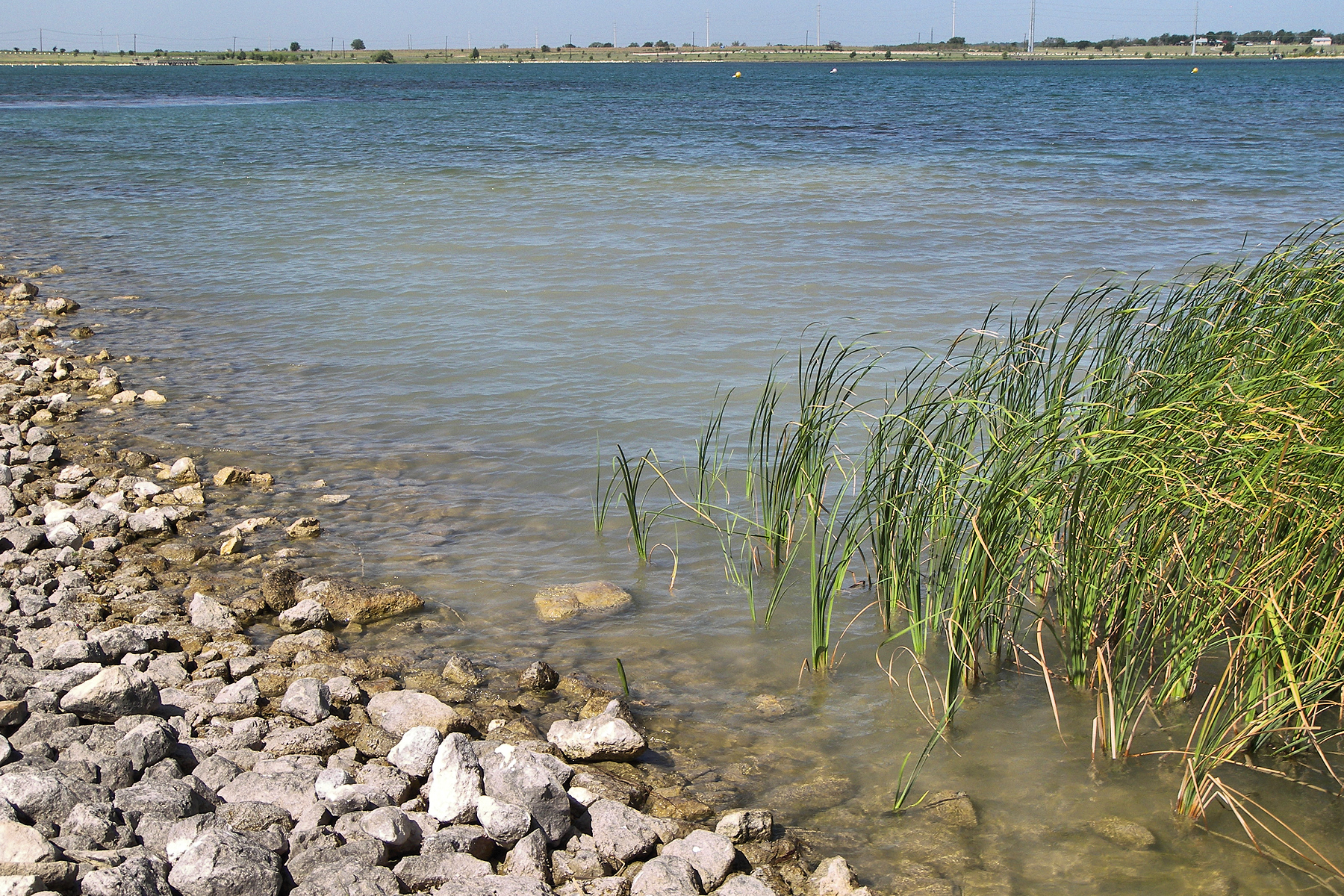 Lake Pflugerville located near Pflugerville, Texas, United States.